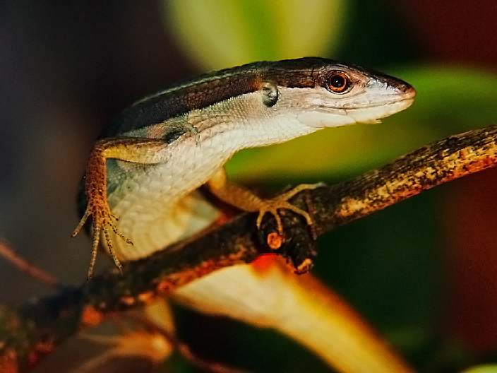 Takydromus sexlineatus female